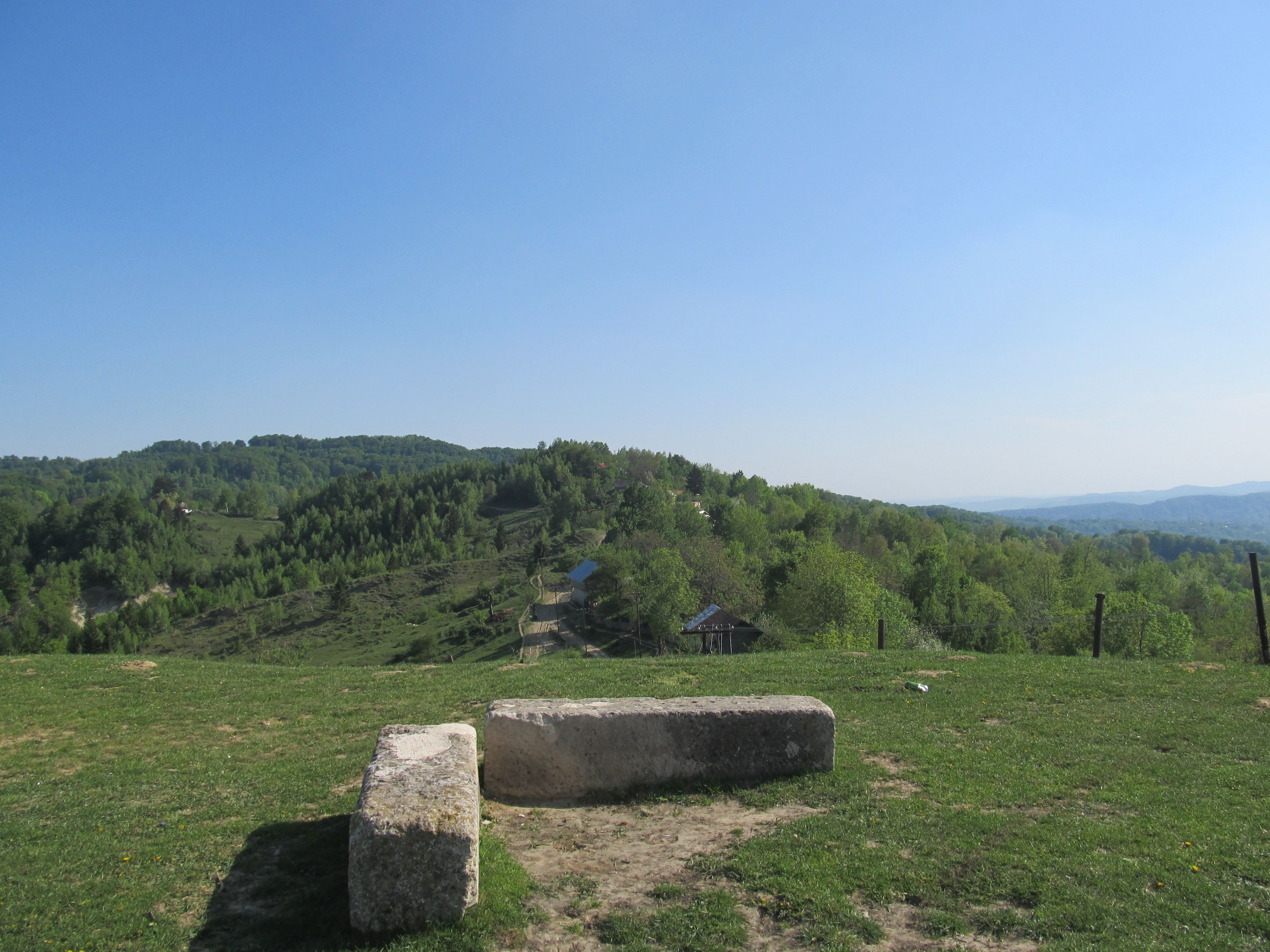 View from the Ruler's Cross, monument erected in 1866 in the Romanian village of Melicești, municipality of Telega, work of architect Paul Focșeneanu.